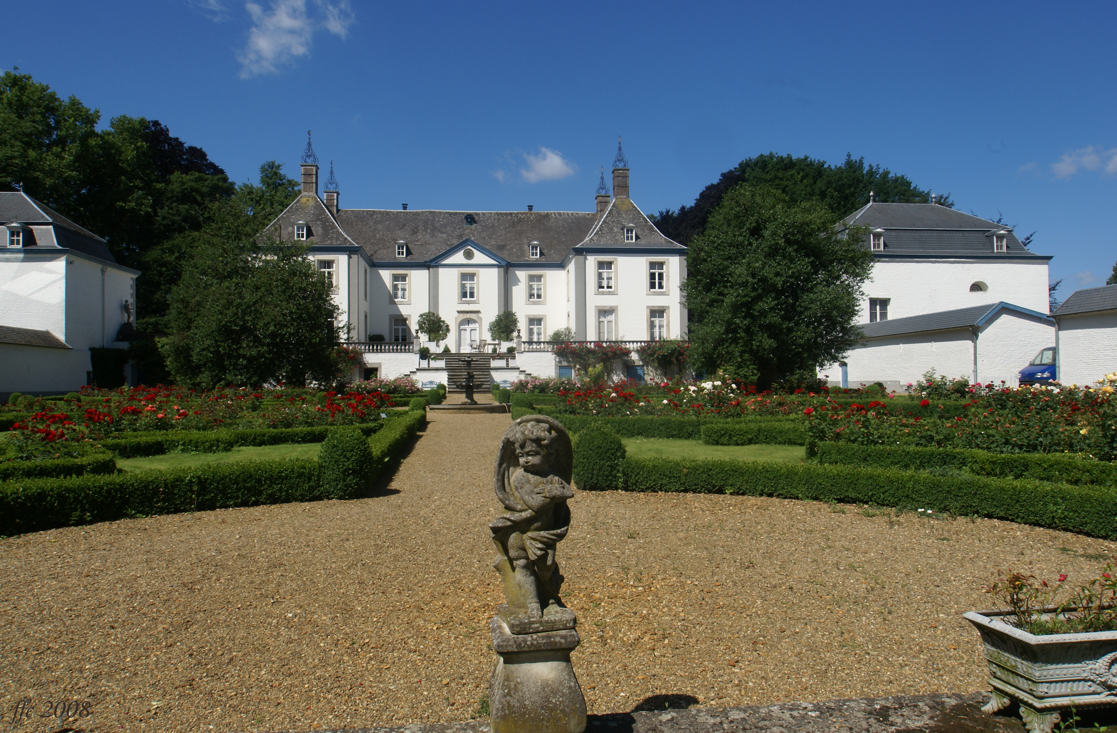 Genoelselderen (Belgium): Elderen Hall